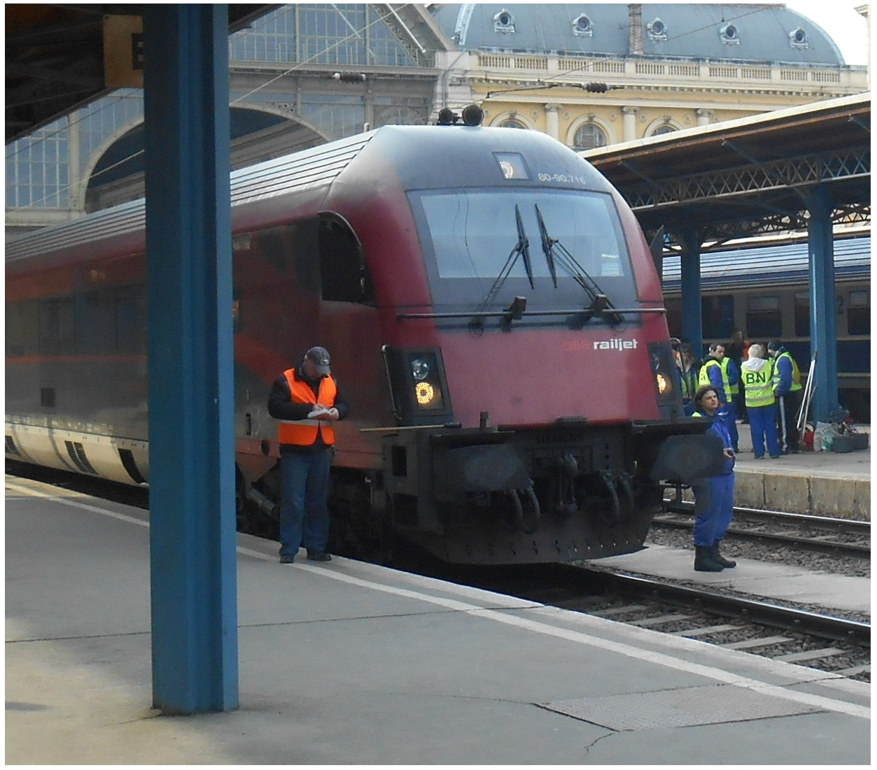 A wheeltapper at Budapest-Keleti, Eastern Railway Terminus, leaves his long harmer on the train's buffers while he signs off the paperwork